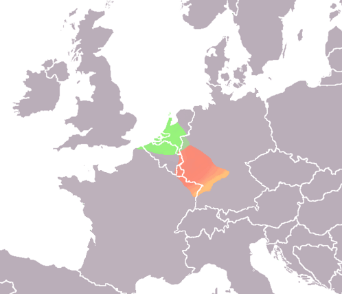 Rex 20:13, 15 August 2006 (UTC)